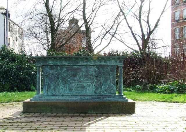 Anchor Mills Memorial Anchor Buildings 371284, gatehouse 371294 and mill 372366 are visible in the background. The inscription on this side is slightly obscured, but as far as I can tell, it reads "Mnemosynes sits like a temeno a world within a world". See 373255 for the other side of the memorial.